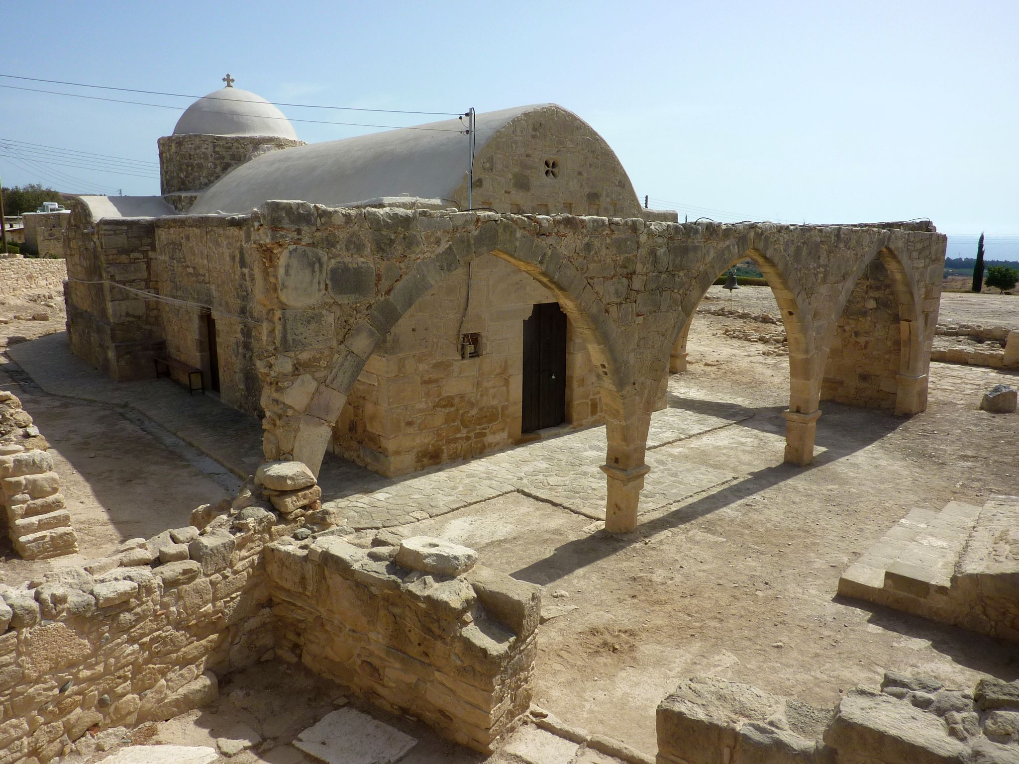 Panagia Katholiki, Kouklia, Cyprus